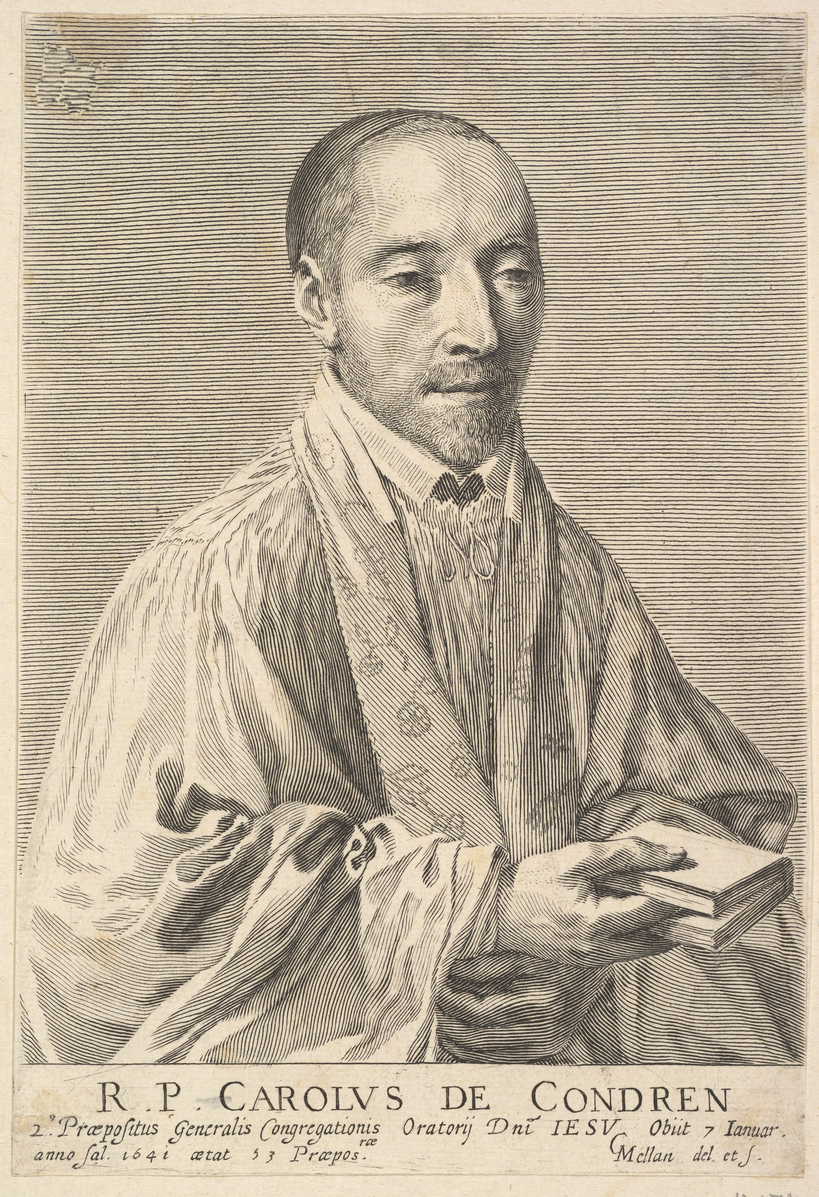 Print; Prints